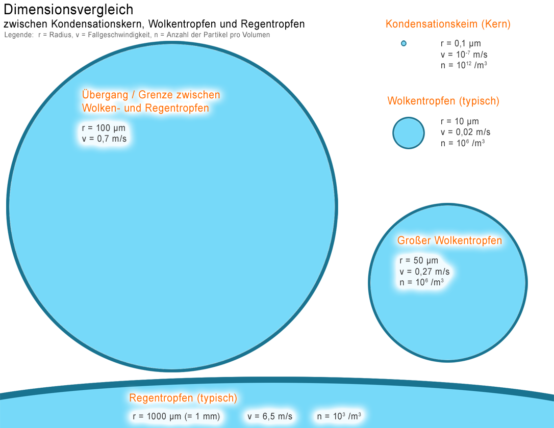 Dimensions of rain drops